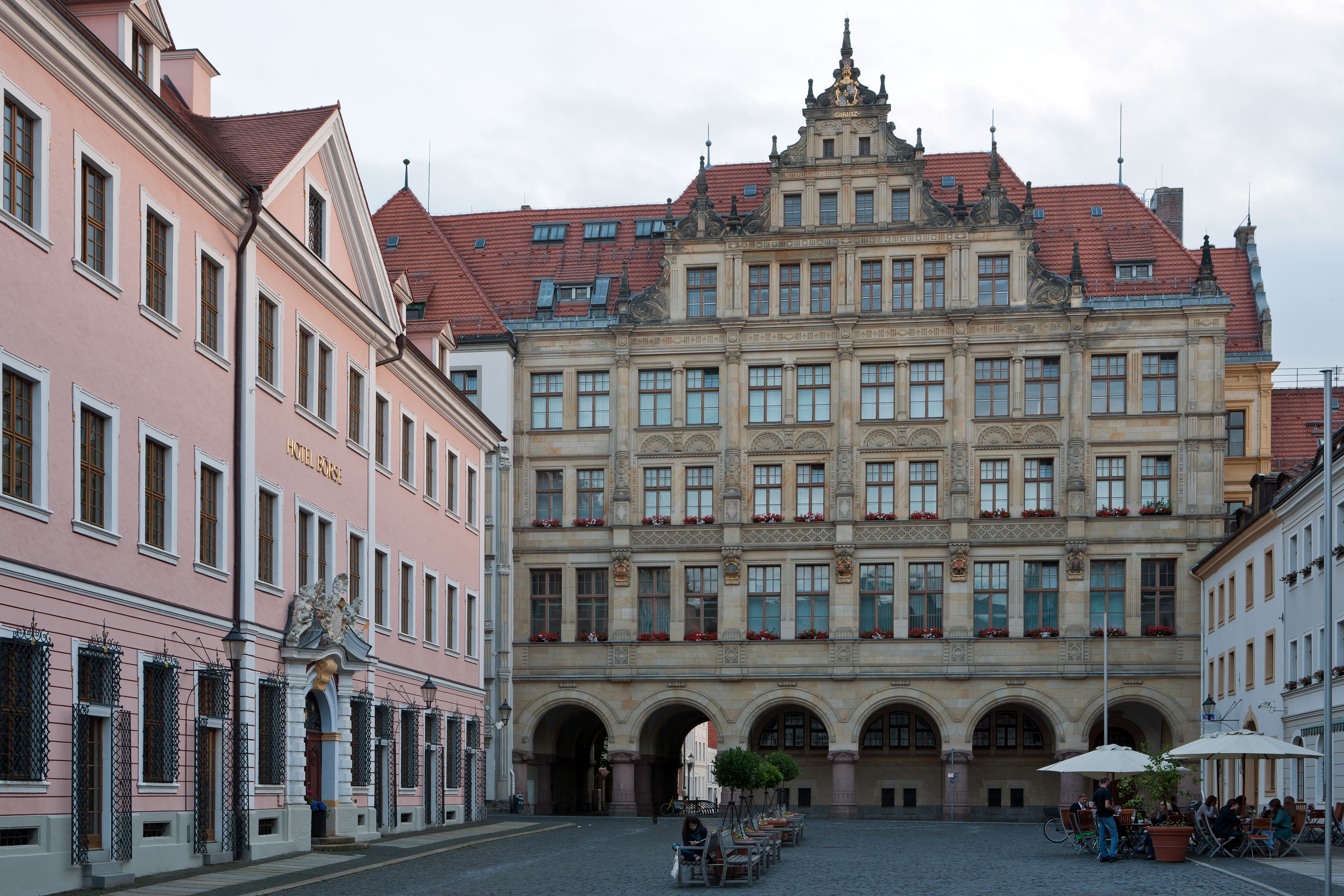 Görlitz: Neues Rathaus (New City Hall) as seen from the east